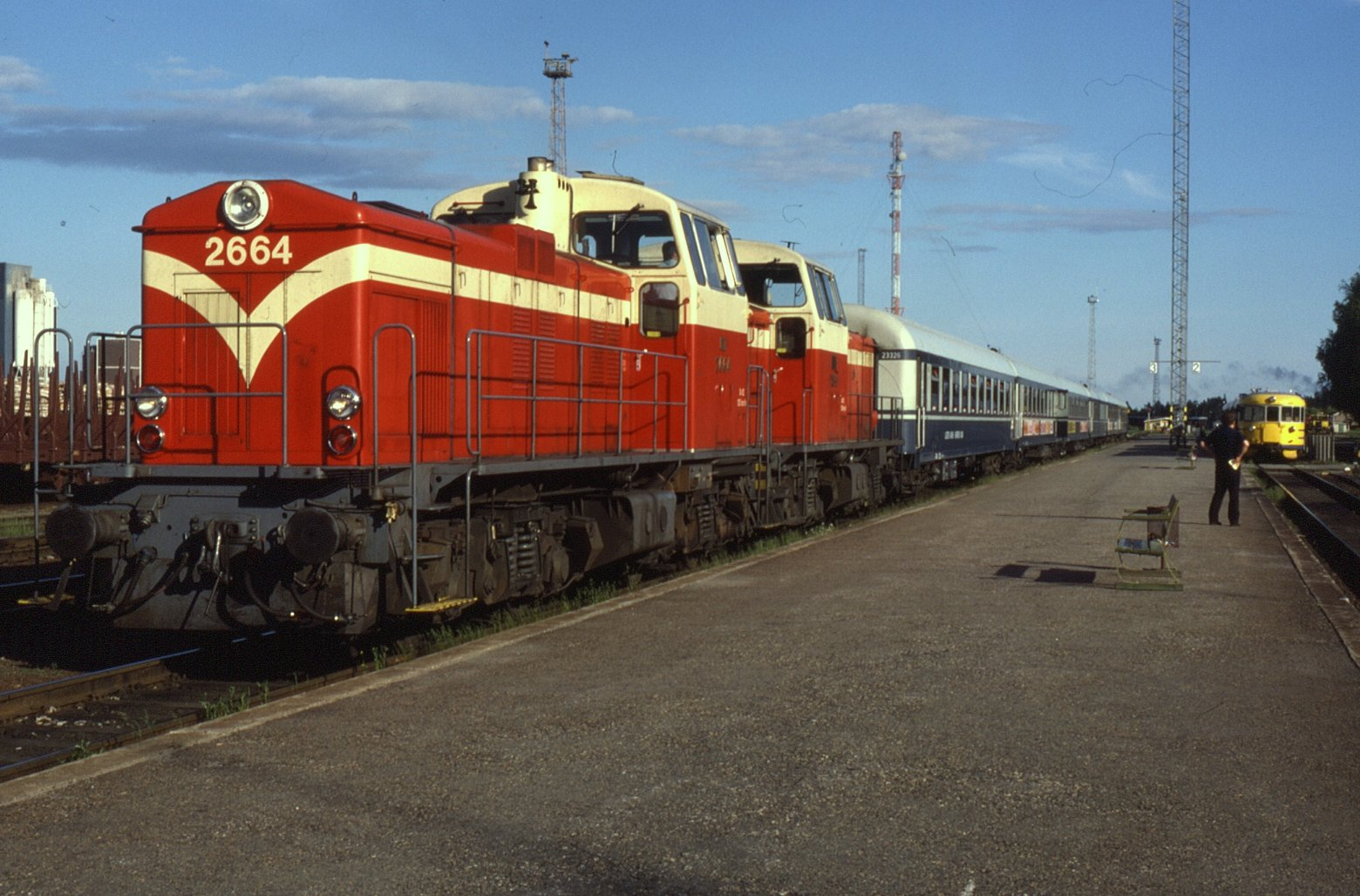 On 14 June 1986 a pair of VR Class Dv12 diesel locomotives nos. 2664 and 2512 is seen at Kemi railway station on a service through to Rovanemi.